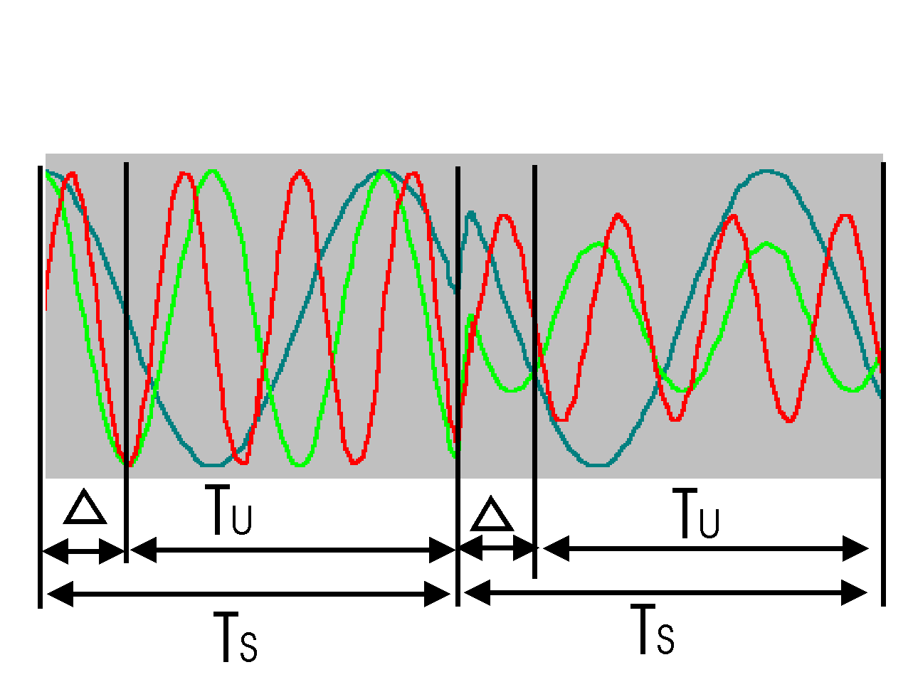 base band signals in OFDM